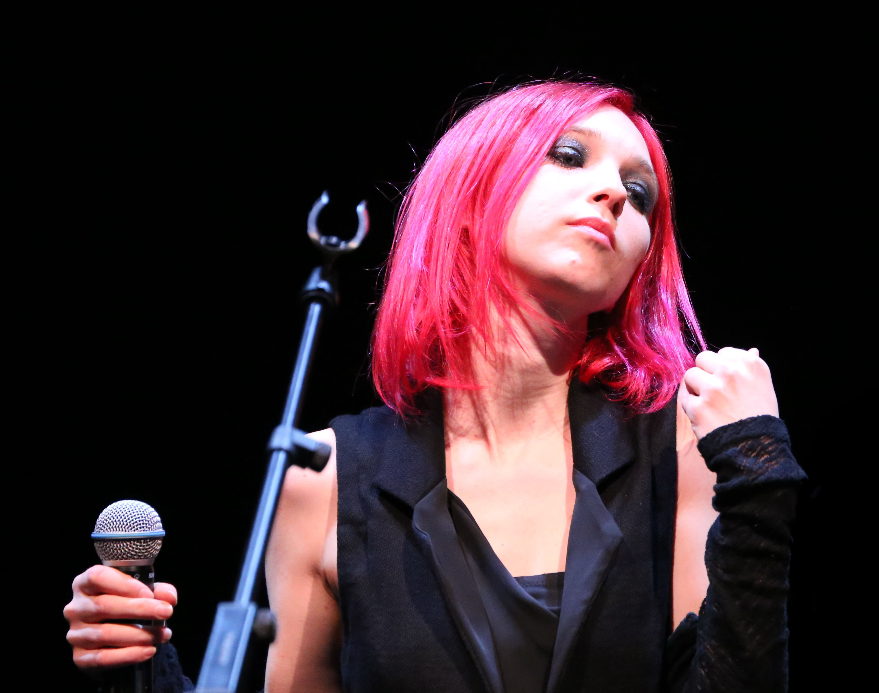 Rome, Parco della Musica, December 14, 2014. Italian singer-songwriter Nathalie in concert.